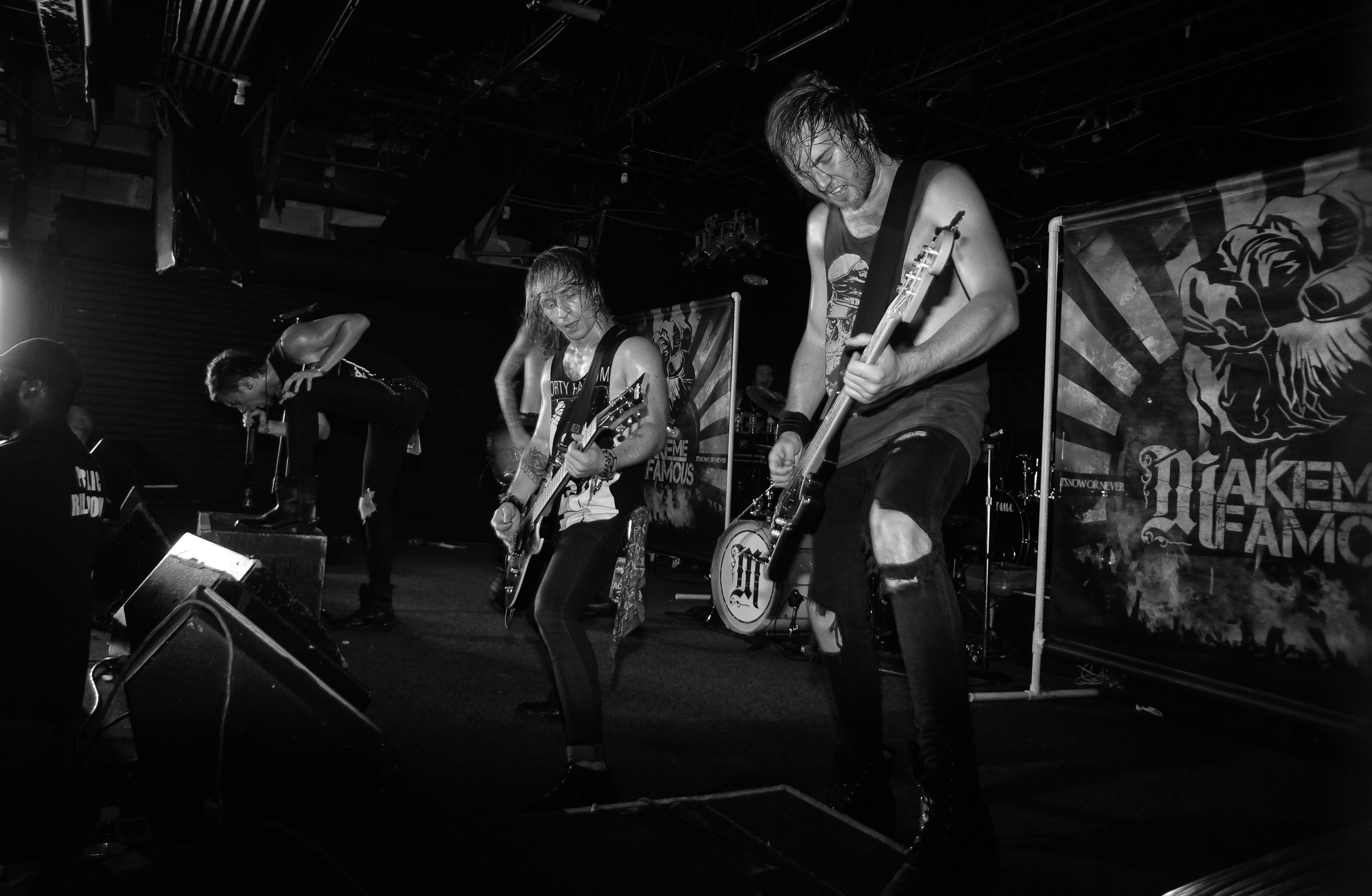 Make me Famous at "Crocodile Rock Allentown All Stars", USA (August, 2012)